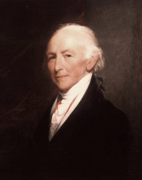 Reproduction painting of Samuel A. Otis